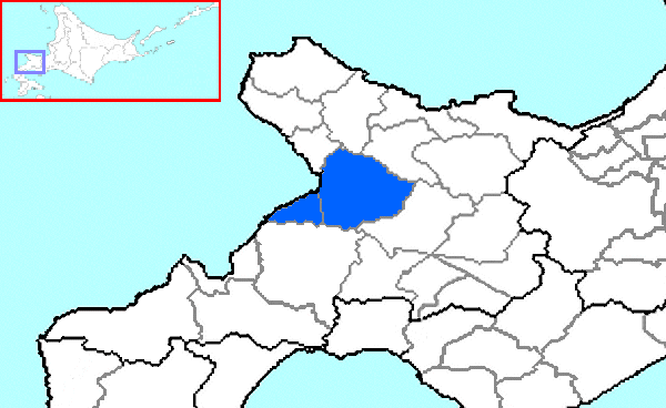 The location of Iwanai District in Shiribeshi Subprefecture, Hokkaido Prefecture, Japan.